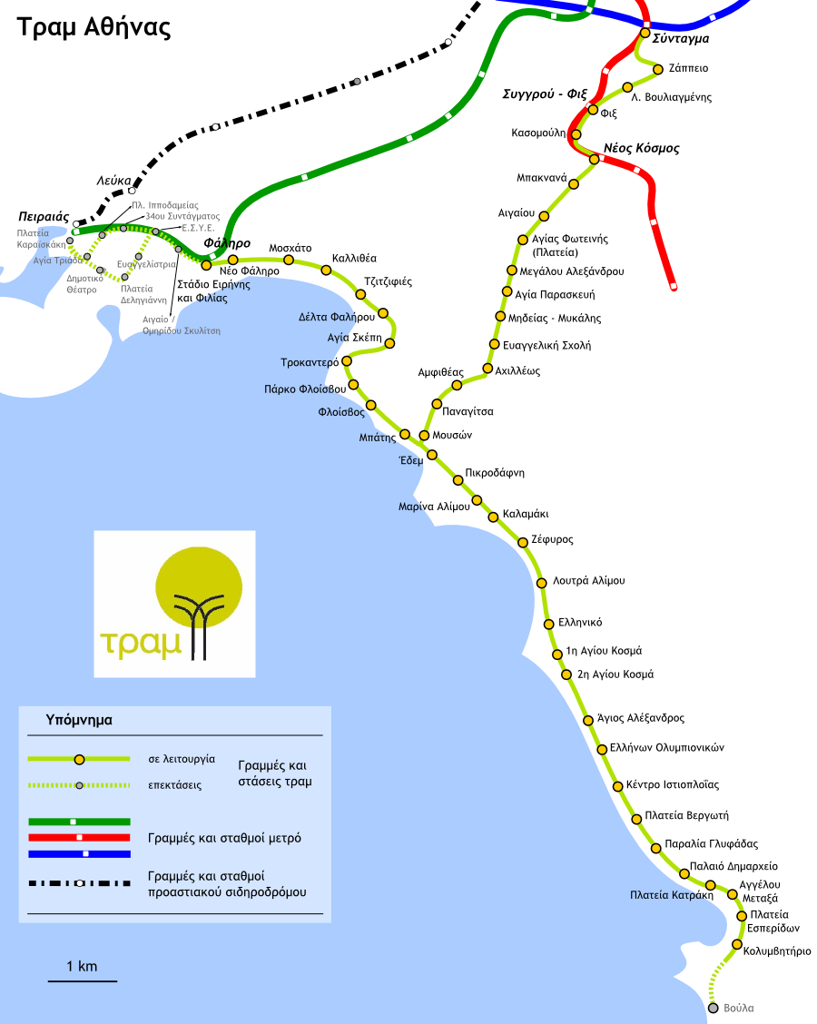 Geographically accurate diagram - map of the Athens tram network